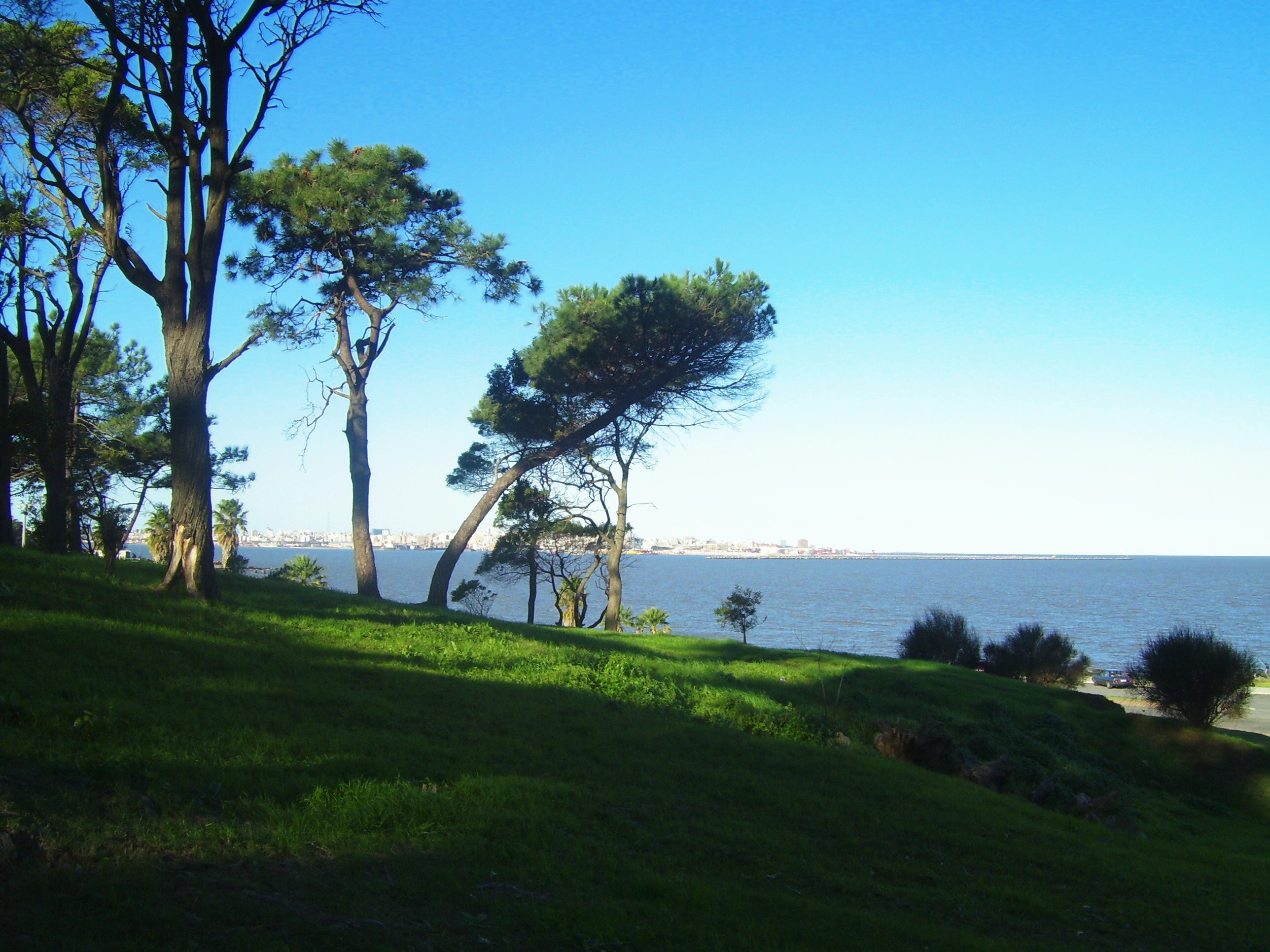 View of the Vaz Ferreira Park, situated in the neighborhood of Villa del Cerro, Montevideo, Uruguay.